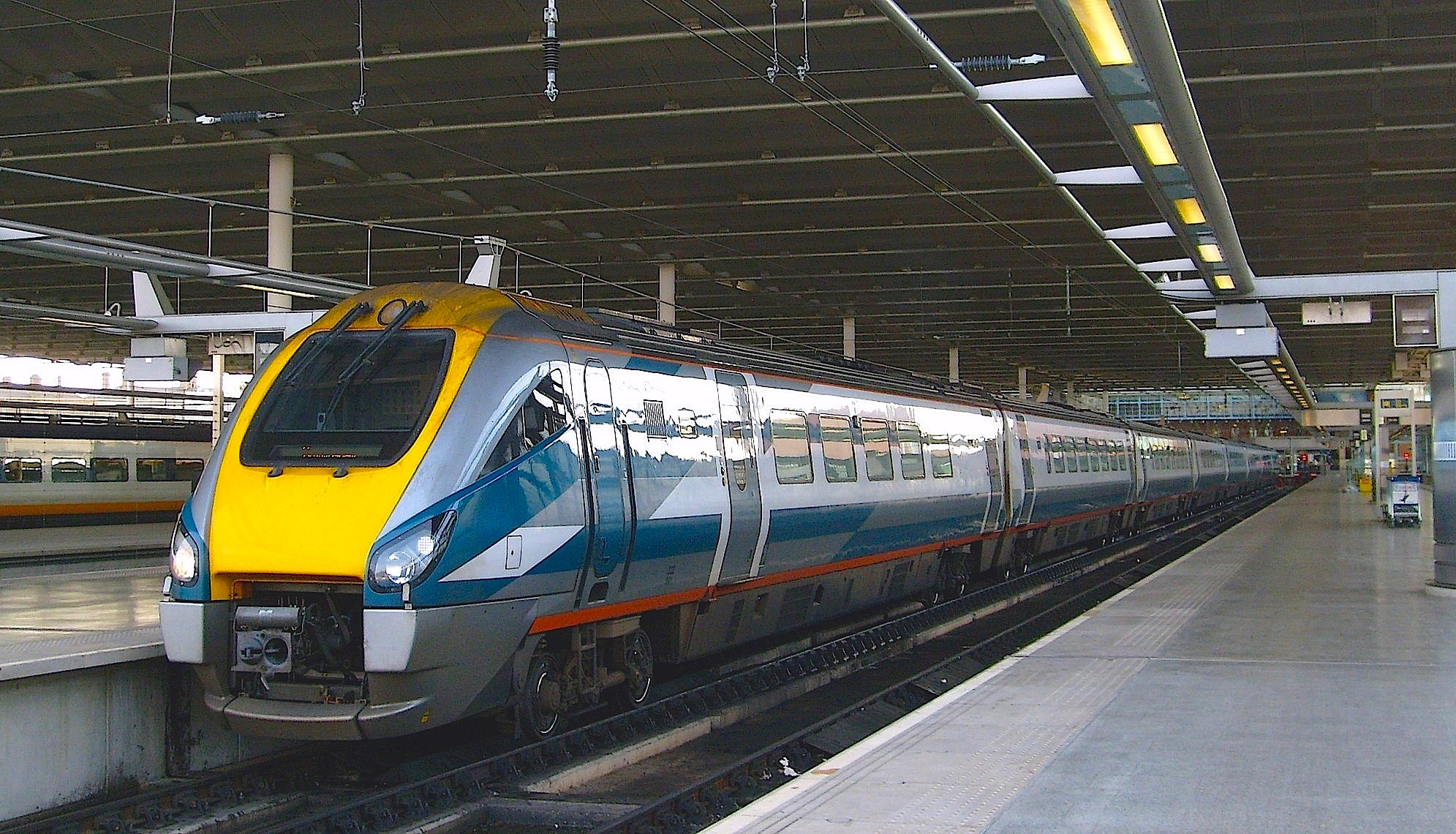 Midland Mainline Class 222 No. 222001 at London St Pancras